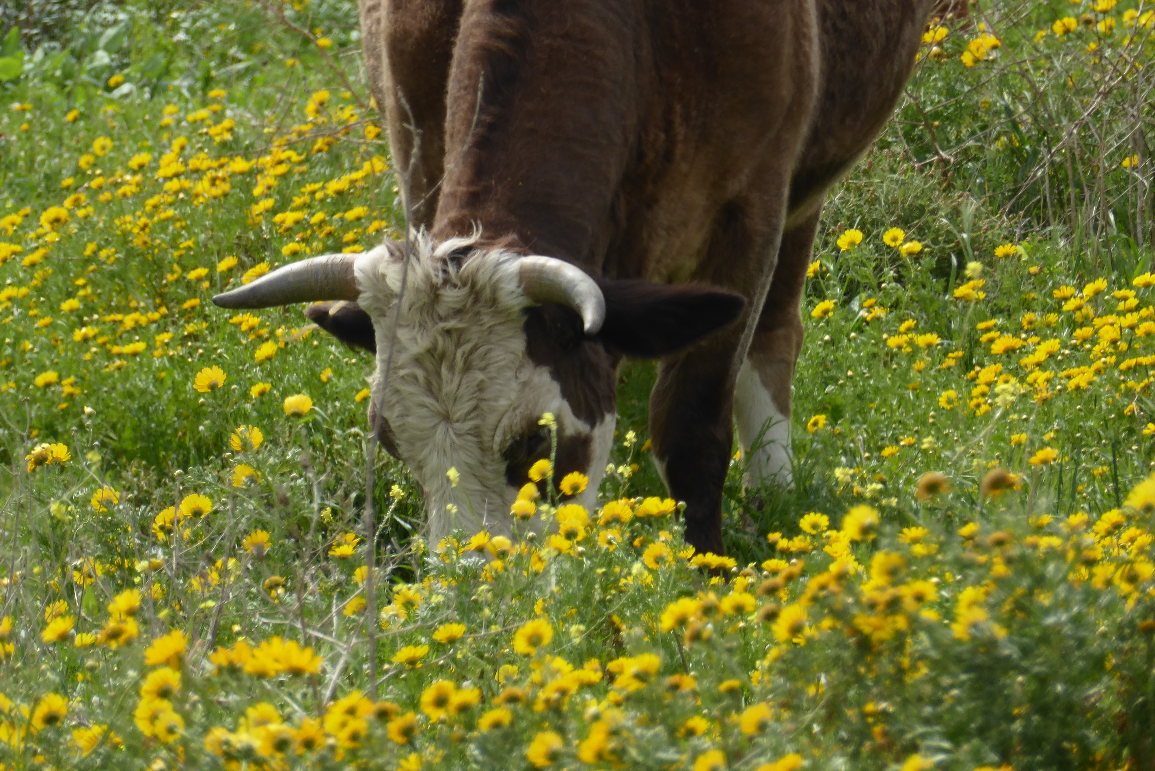 Animals of Israel